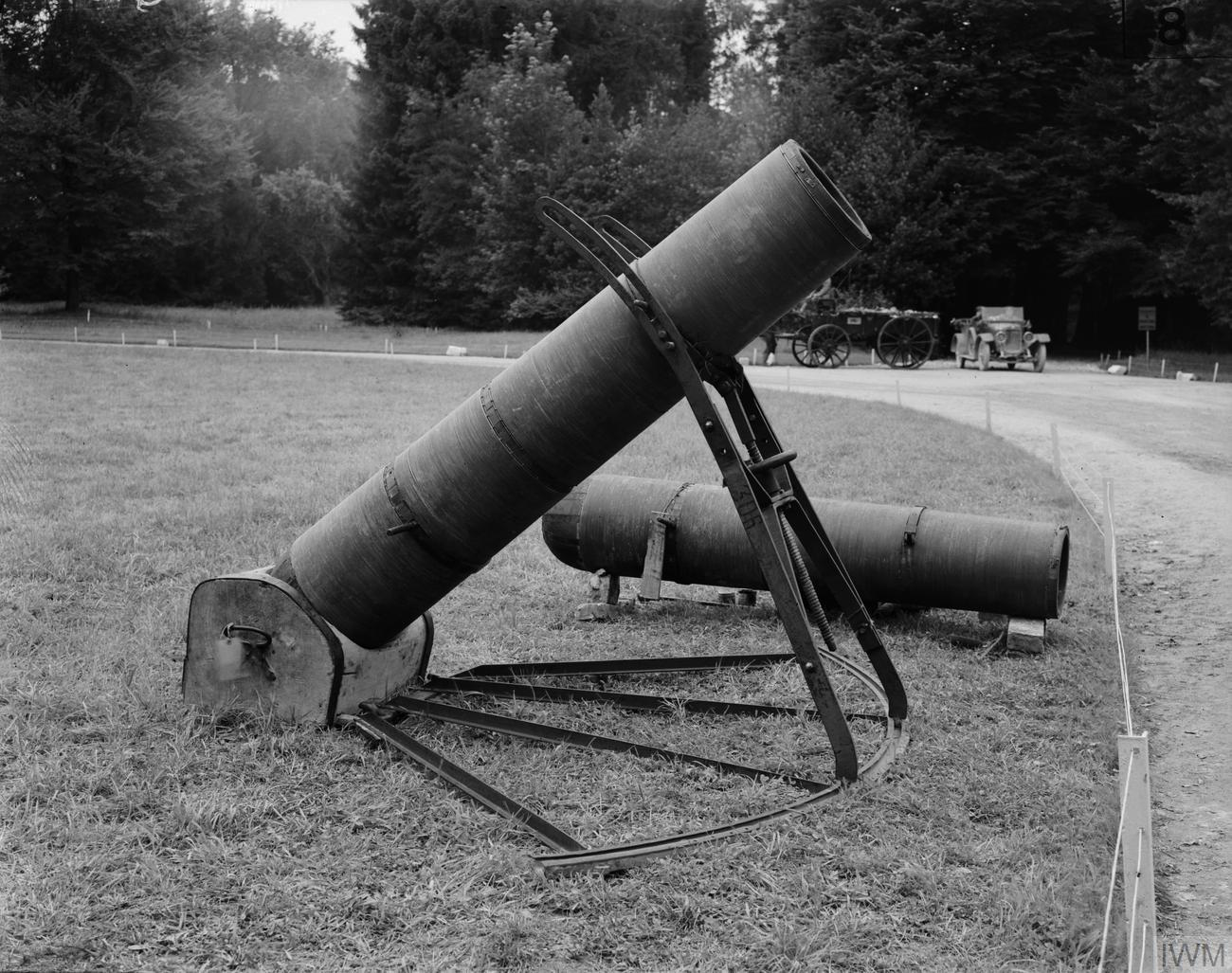 German Artillery on the Western Front German 10-inch Minnenwerfer, the barrel of which is constructed of timber bound with galvanised wire. It threw ten canisters filled with high explosives. Specimens of these weapons are in the Imperial War Museum